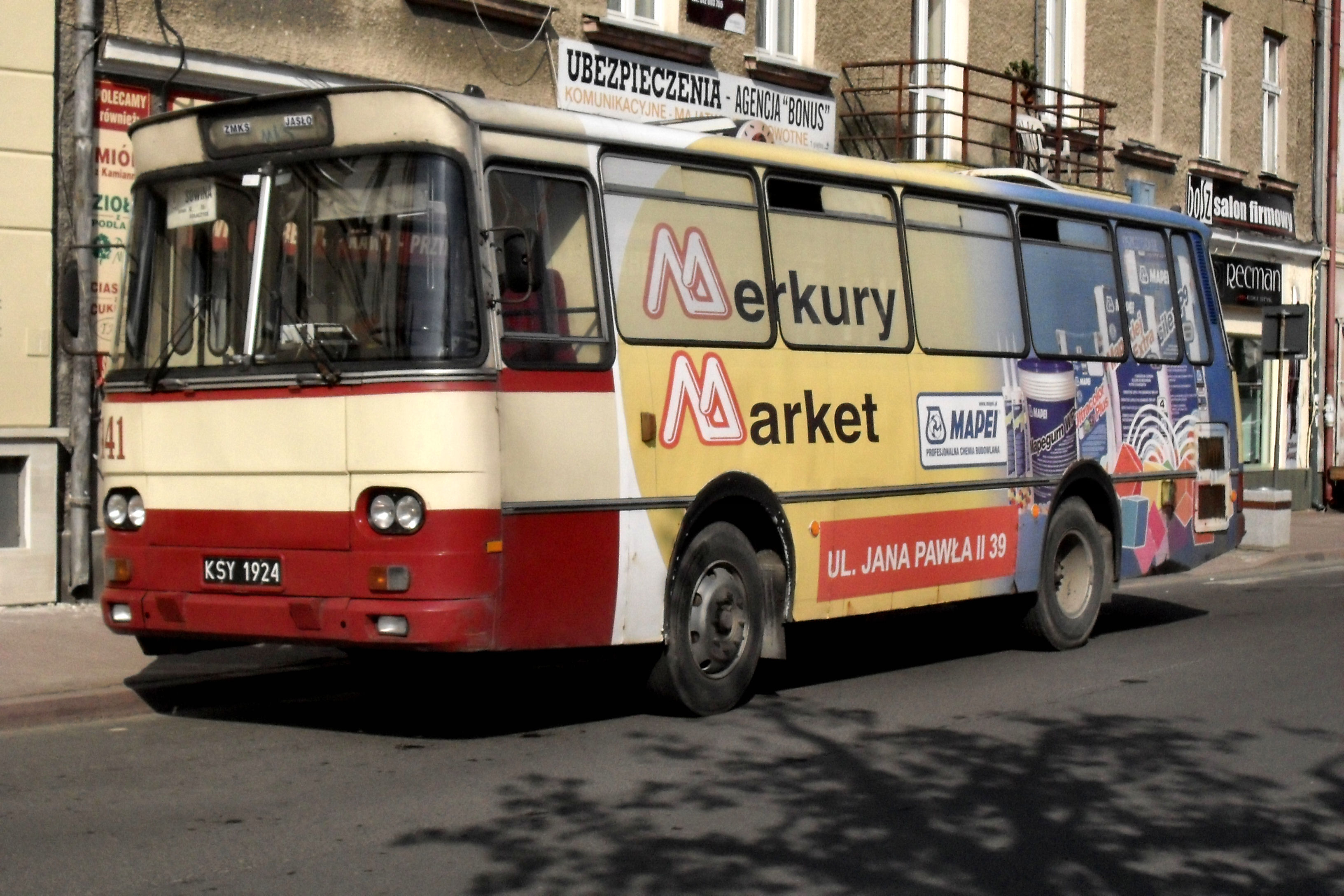 Autosan H9-35 (#141) which belongs to ZMKS Jasło. Built 1992.